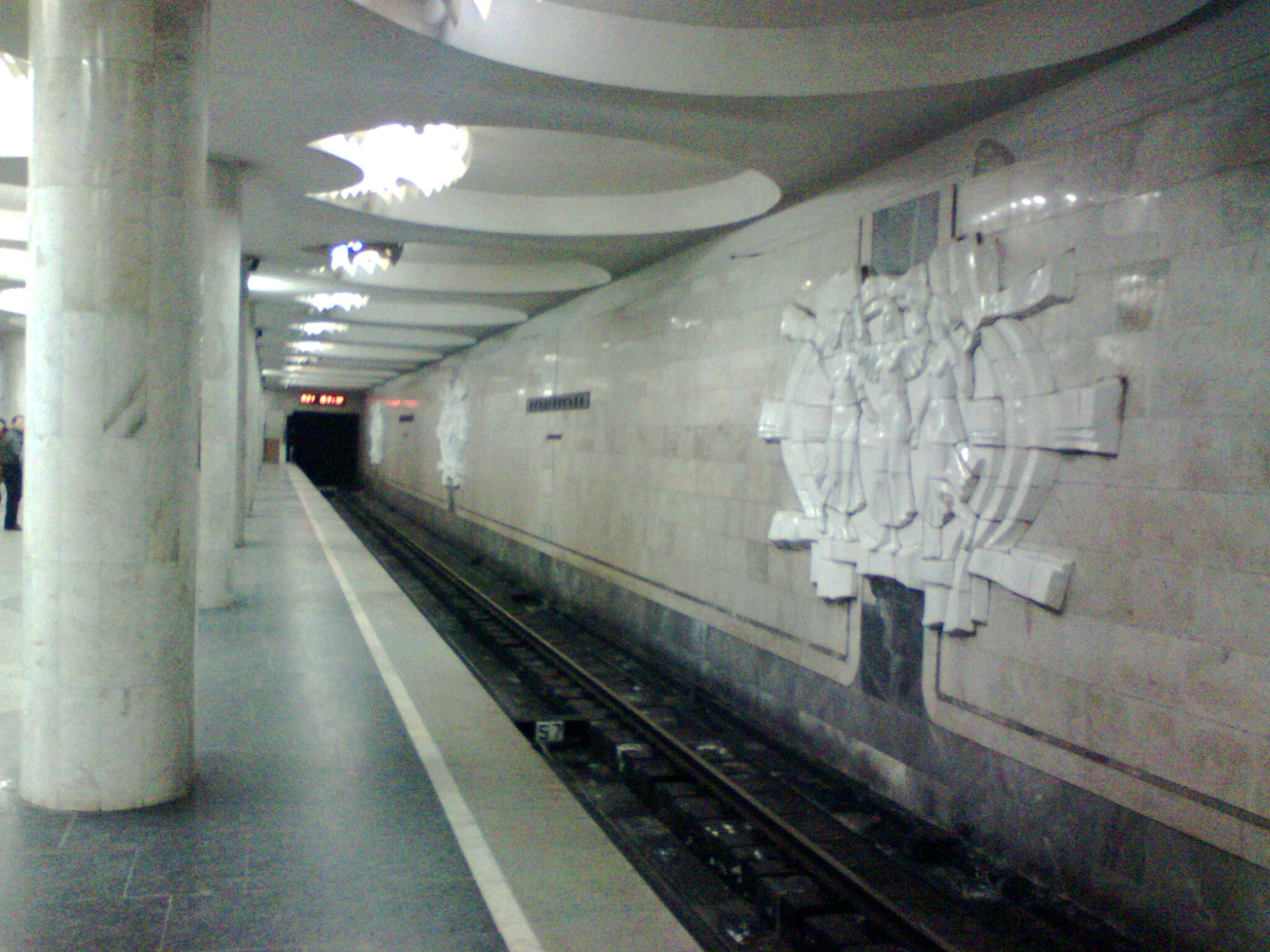 The metro station Studentsheskaya, Kharkiv.